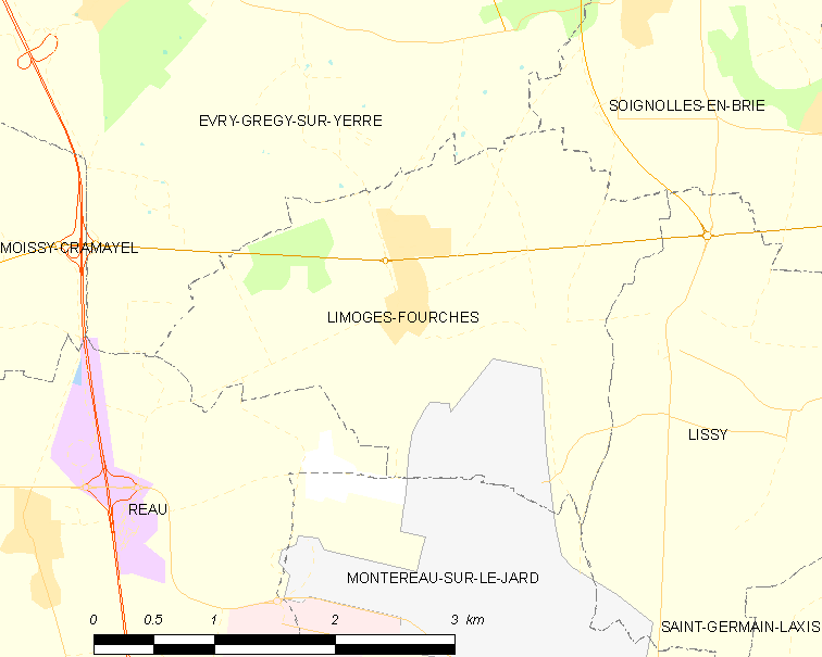 Map of French municipality Limoges-Fourches